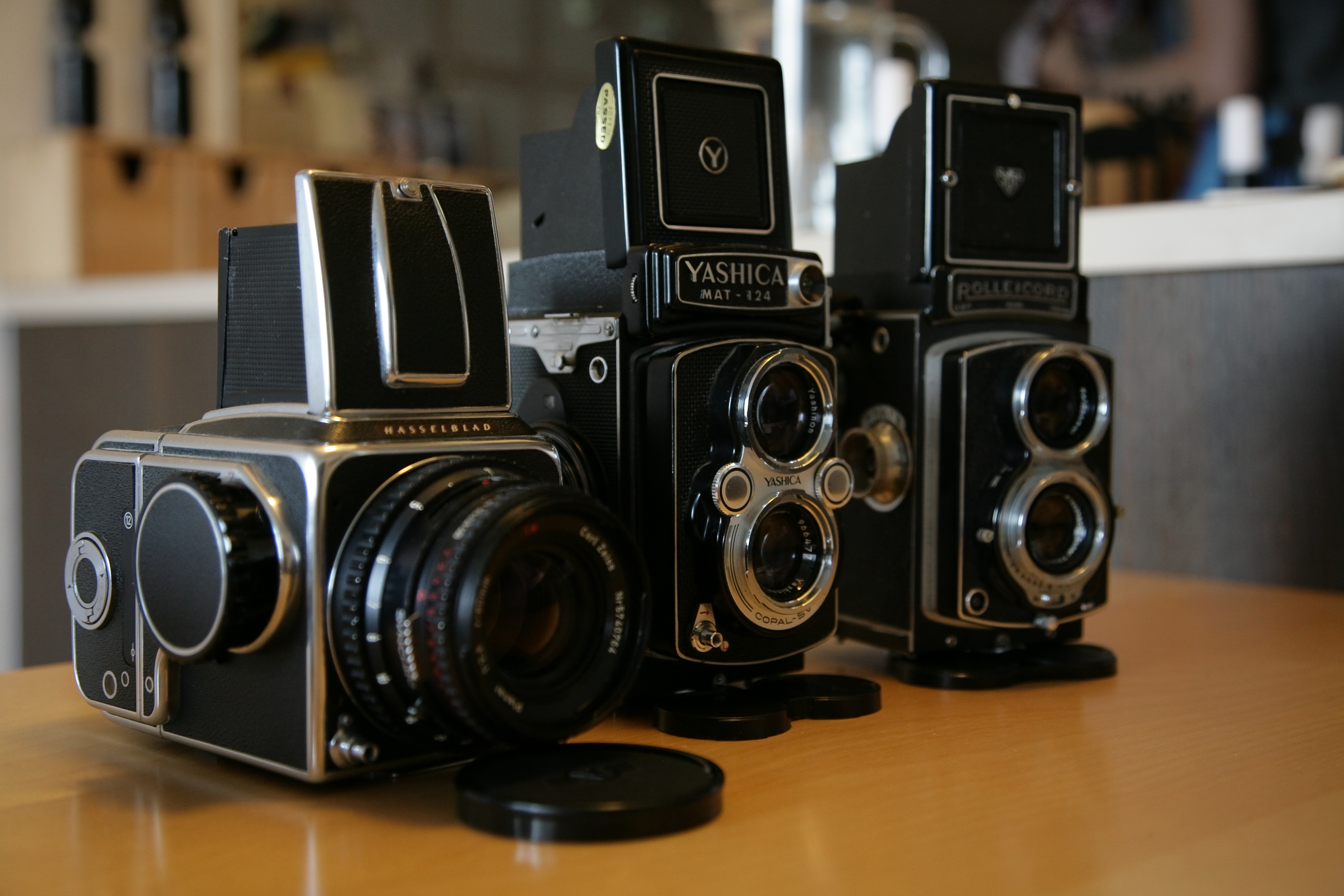 Medium Format Cameras: Hasselblad 500C/M (~1958) Yashica Mat 124 (1968) RolleiCord IV (1954)